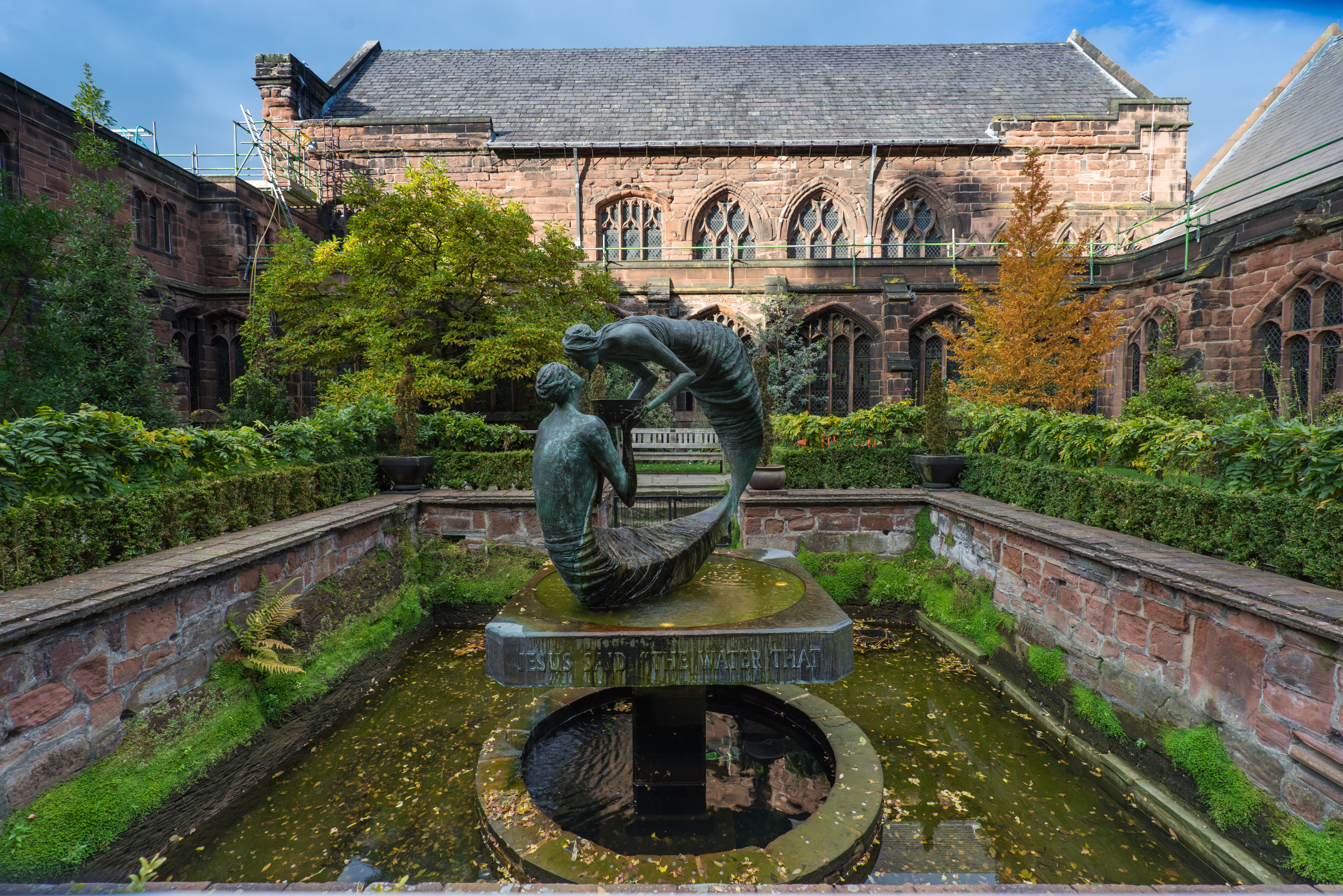 photo of the garden at chester cathedral